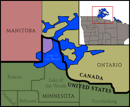 The Northwest Angle in northern Minnesota (purple section).